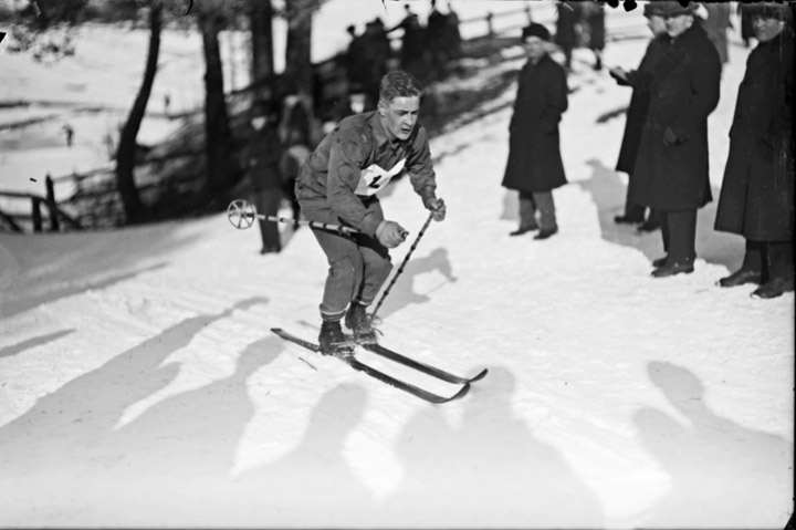 Aarne Valkama in the 17-kilometre ski race, in the 1937 Puijo winter games.